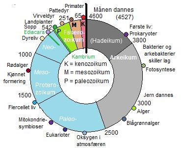 Geological time scale (in Norwegian). Produced in Microsoft Paint.